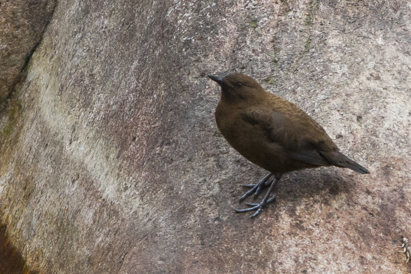 The specie Brown Dipper had been photographed at Lingtam, Sikkim, India on 11.01.2014.